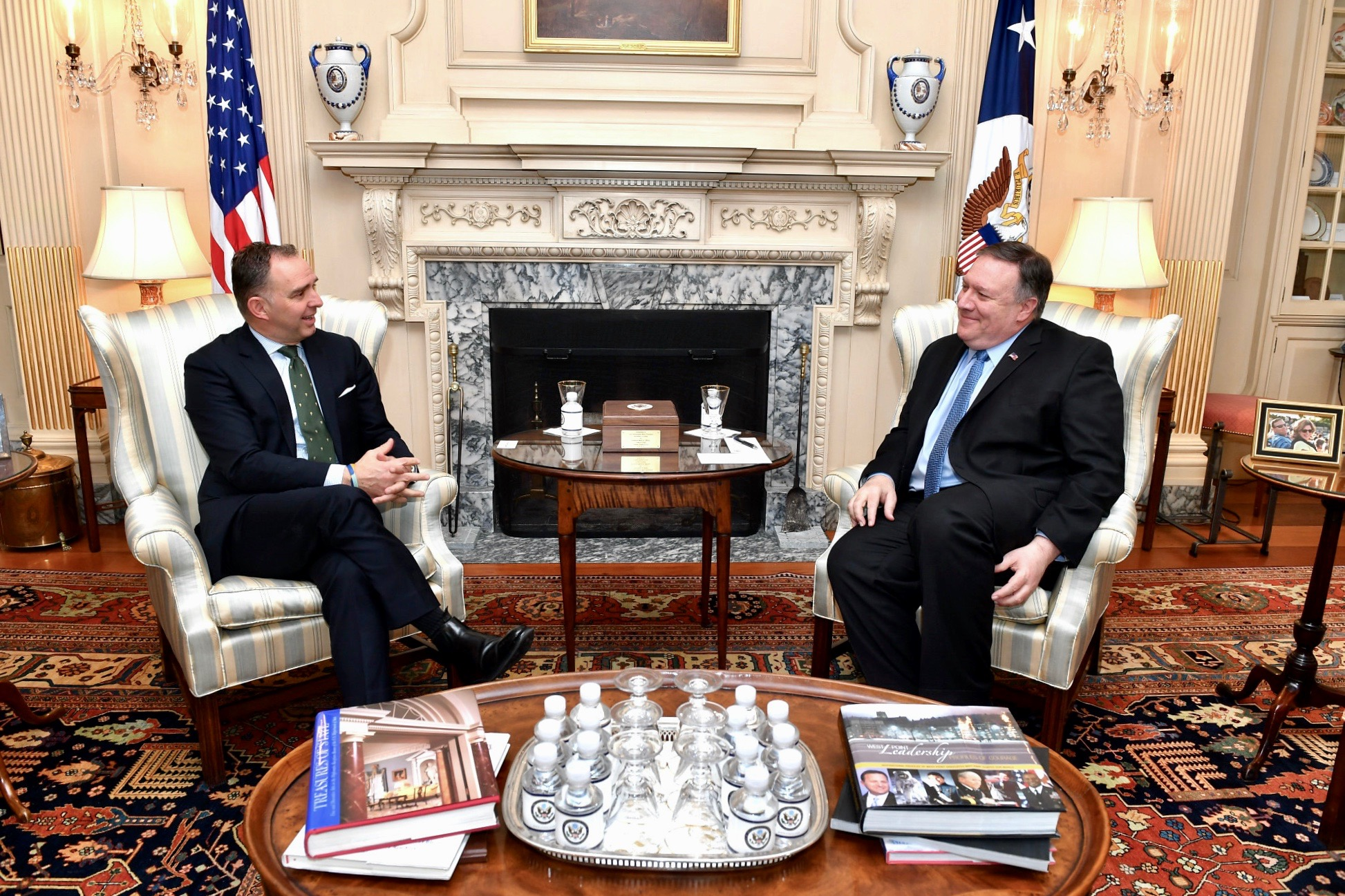 U.S. Secretary of State Michael R. Pompeo meets with United Kingdom National Security Advisor Mark Sedwill, at the Department of State in Washington, D.C., on March 8, 2019. [State Department photo by Michael Gross/ Public Domain]